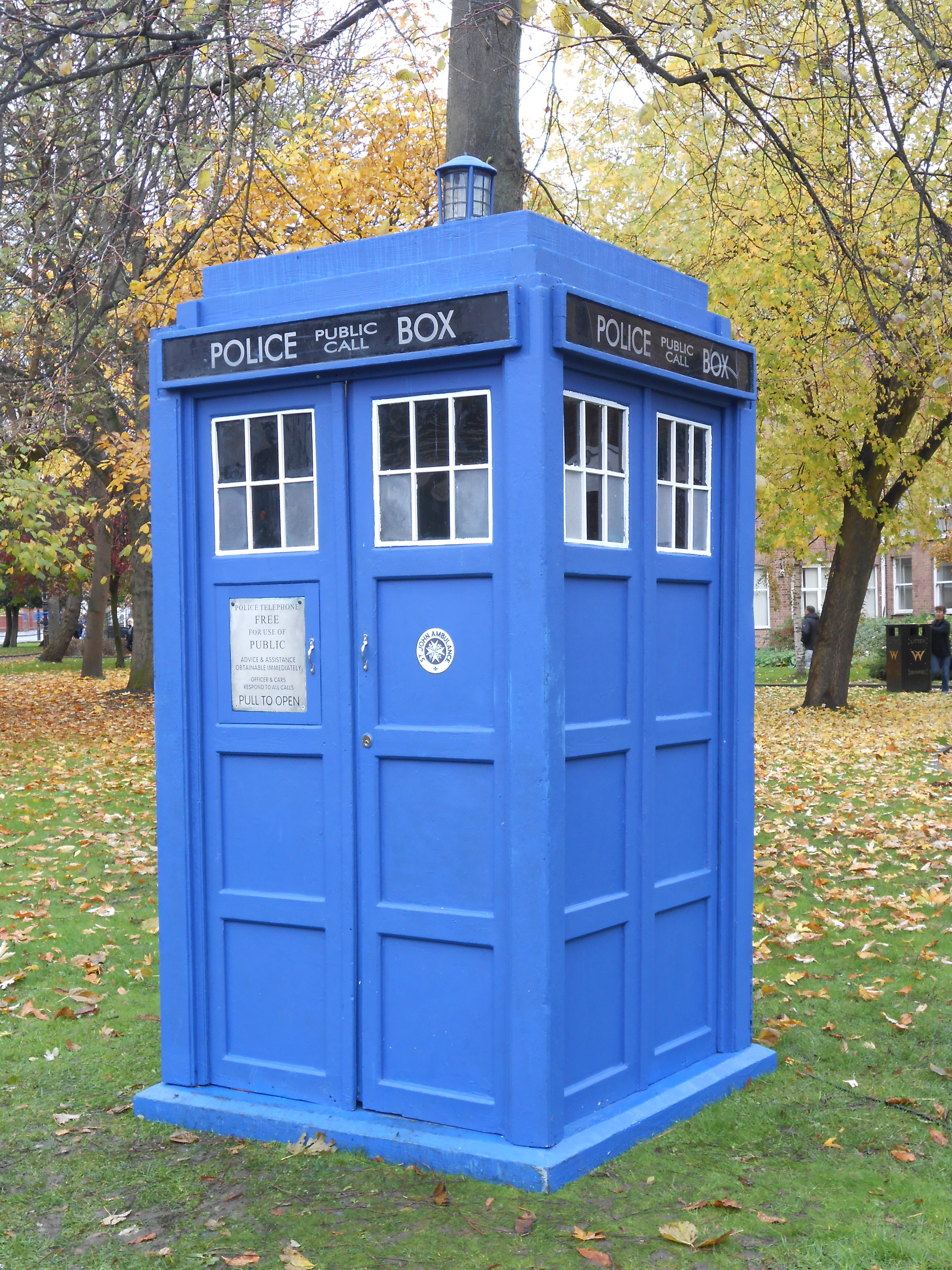 Tardis Tour Wales 2013 at Queens Square, Wrexham.